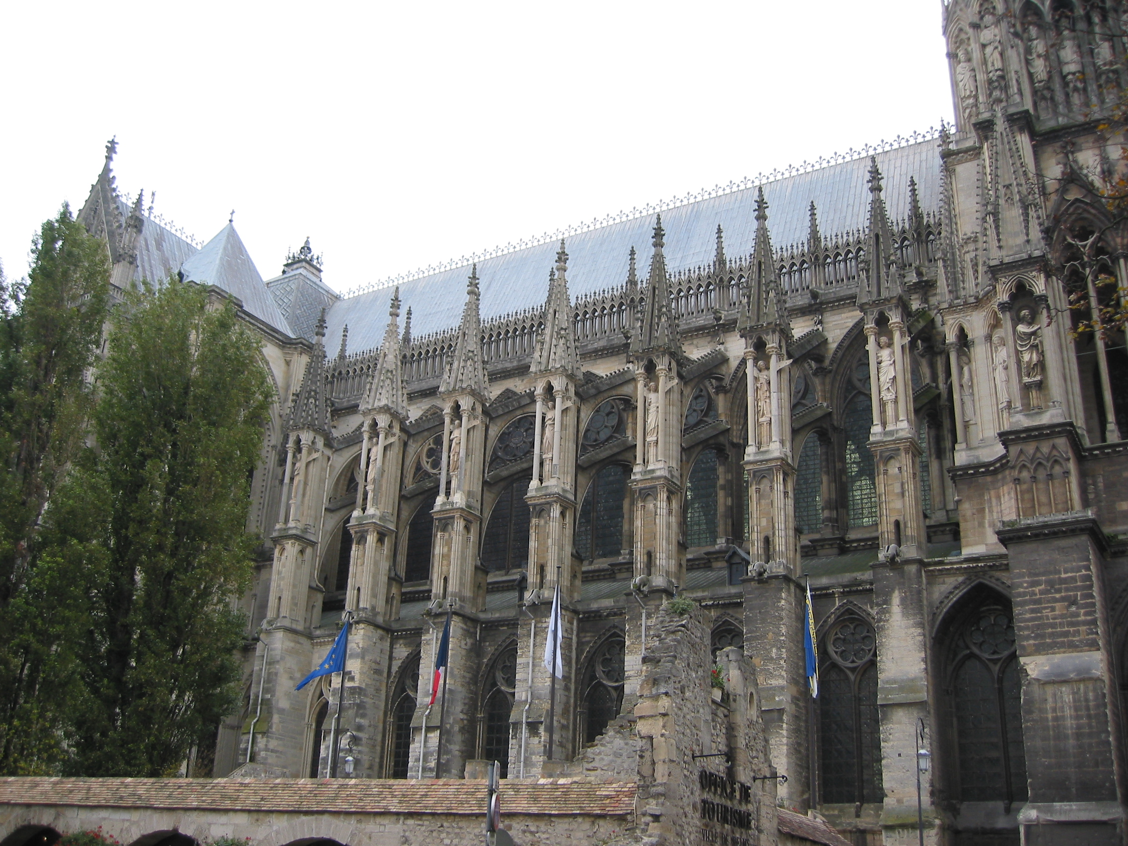 Cathedral in Reims, France.